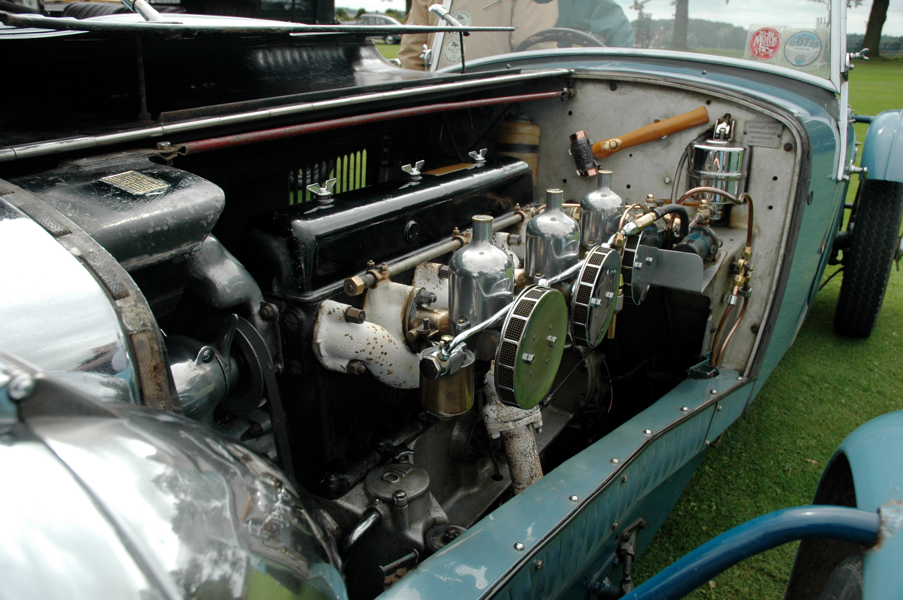 Alvis Speed 25 (DVLA) first registered 9 October 1937, 3571cc very special metal mallet is for the "knock-off" hubs